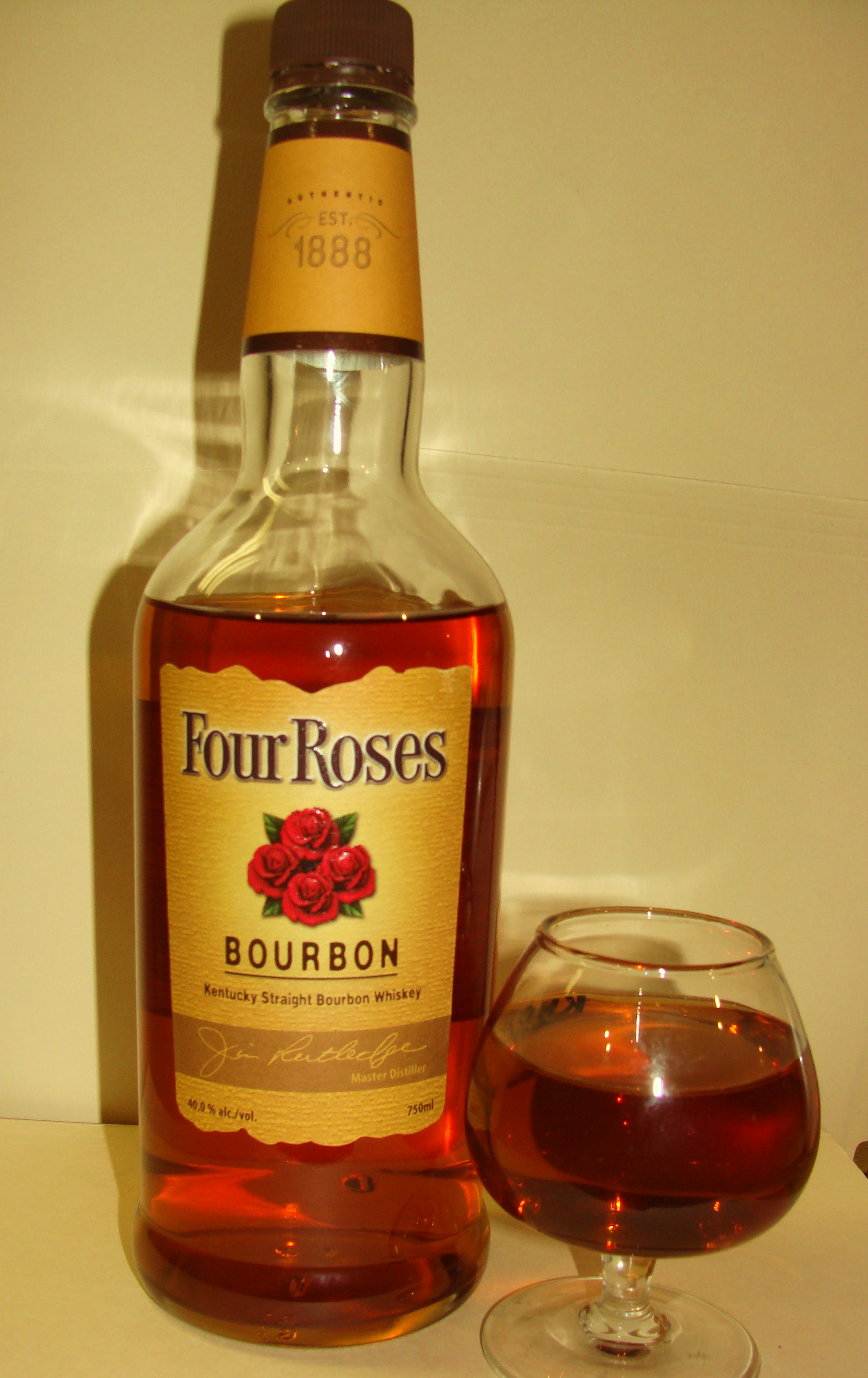 Four Roses